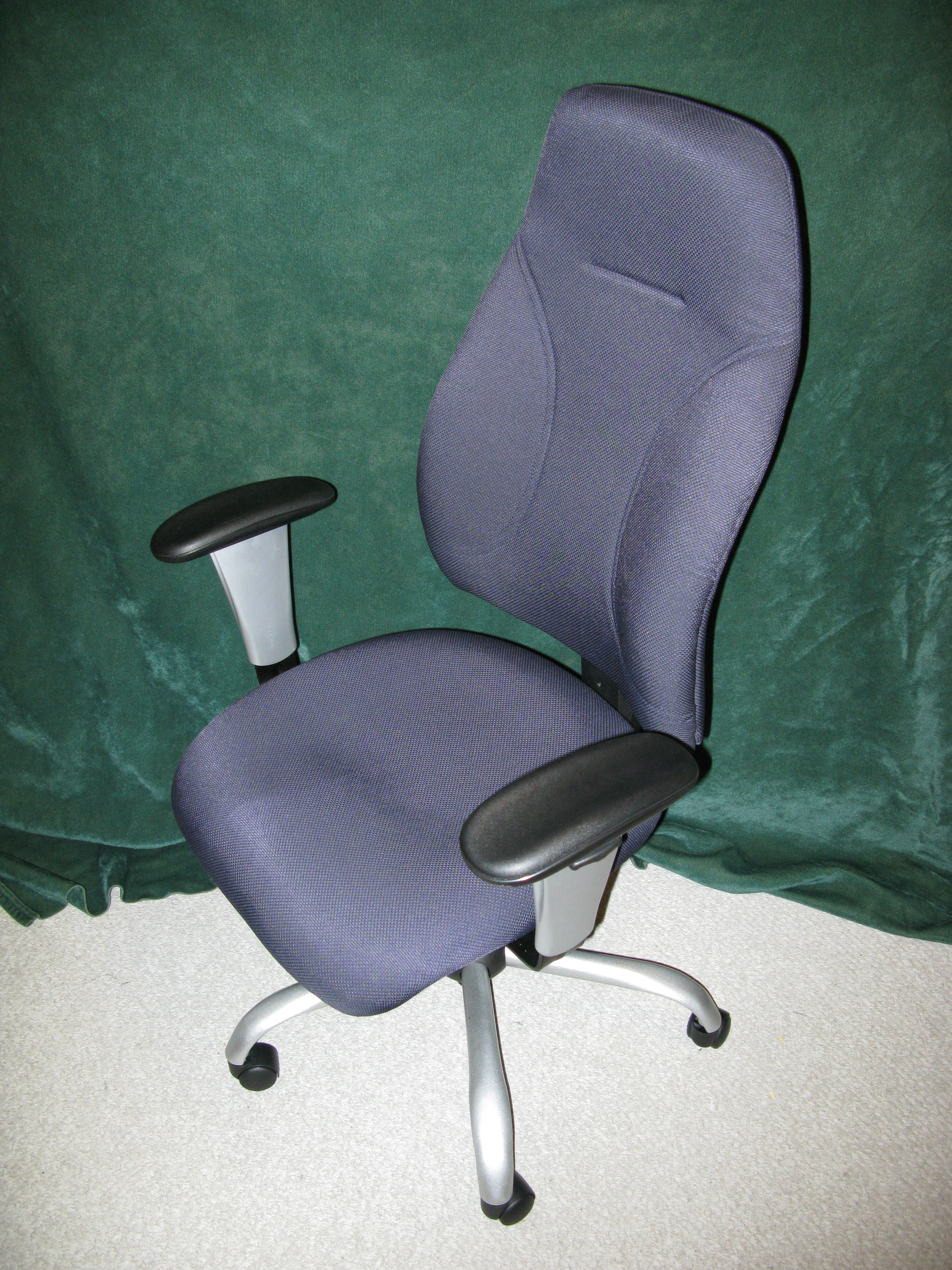 Staples Sanford Blue Fabric Chair